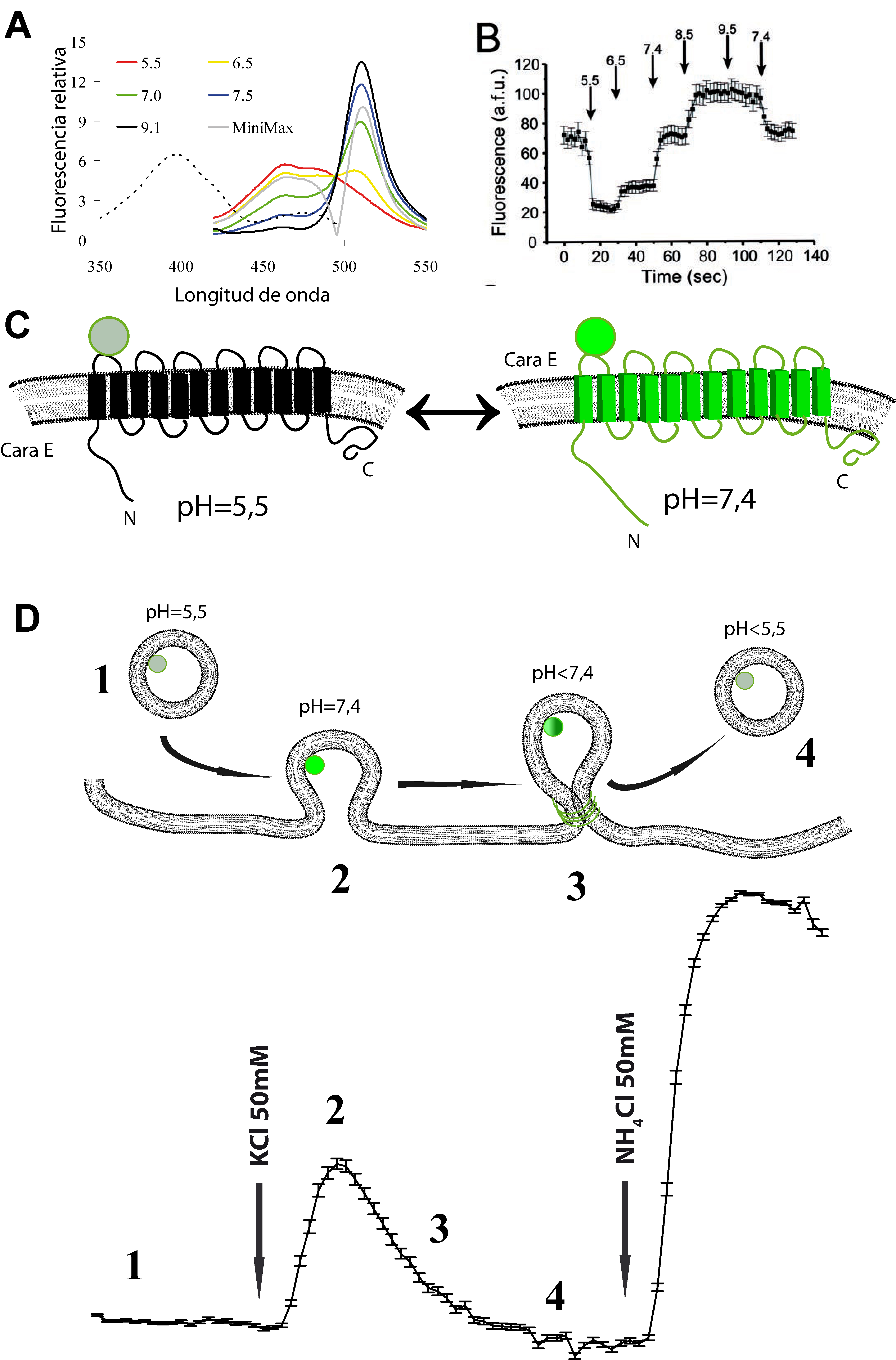 VGluT1-pHluorin basic structure and protocol